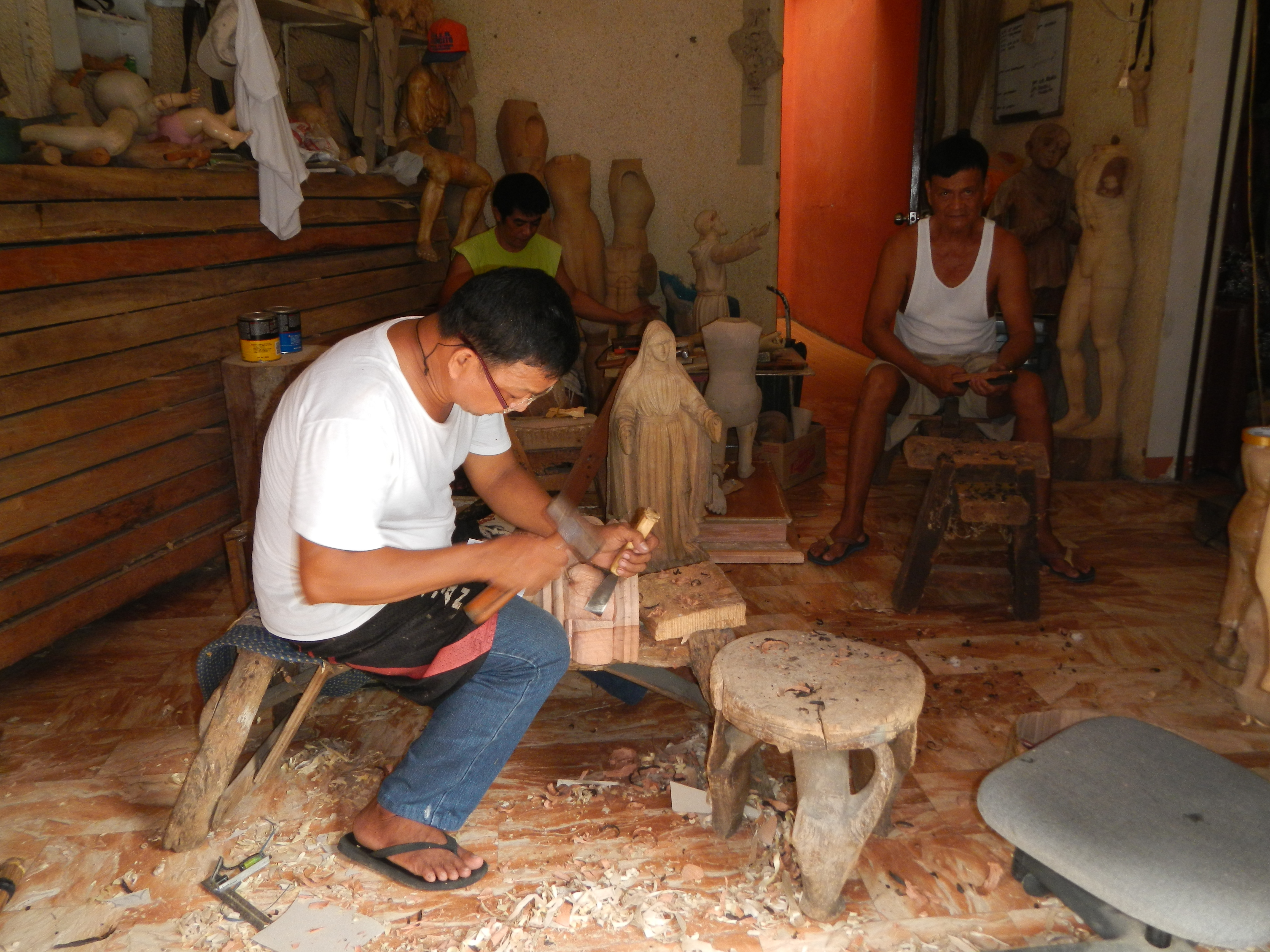 UploadWizard photos -- (General description, 3-dimension angle by angle photography of this town, church & landmarks) --Wood carving industry in Centro, downtown, town centre of Paete, Laguna[1] (s a fourth class municipality in the province of Laguna, [2])Philippines; the latest census, a population of 23,523- Wood_carving [3] industry) Entrance Monument, Welcome Sign and Statue at Barangay 4 - Quinale; proclaimed "the Carving Capital of the Philippines" on March 15, 2005 by Philippine President Arroyo; politically subdivided into 9 barangays[4] situated in Laguna, Region 4, Philippines, its geographical coordinates are 14° 21' 46" North, 121° 29' 1" East .